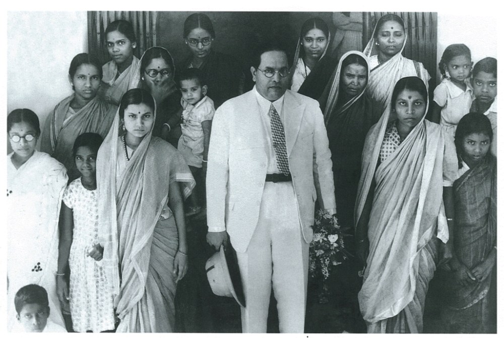 On July 20, 1942 at Nagpur more than 25,000 Dalit women participated in the historic All India Depressed Classes Women’s Conference led by Dr. Babasaheb Ambedkar. (more details)